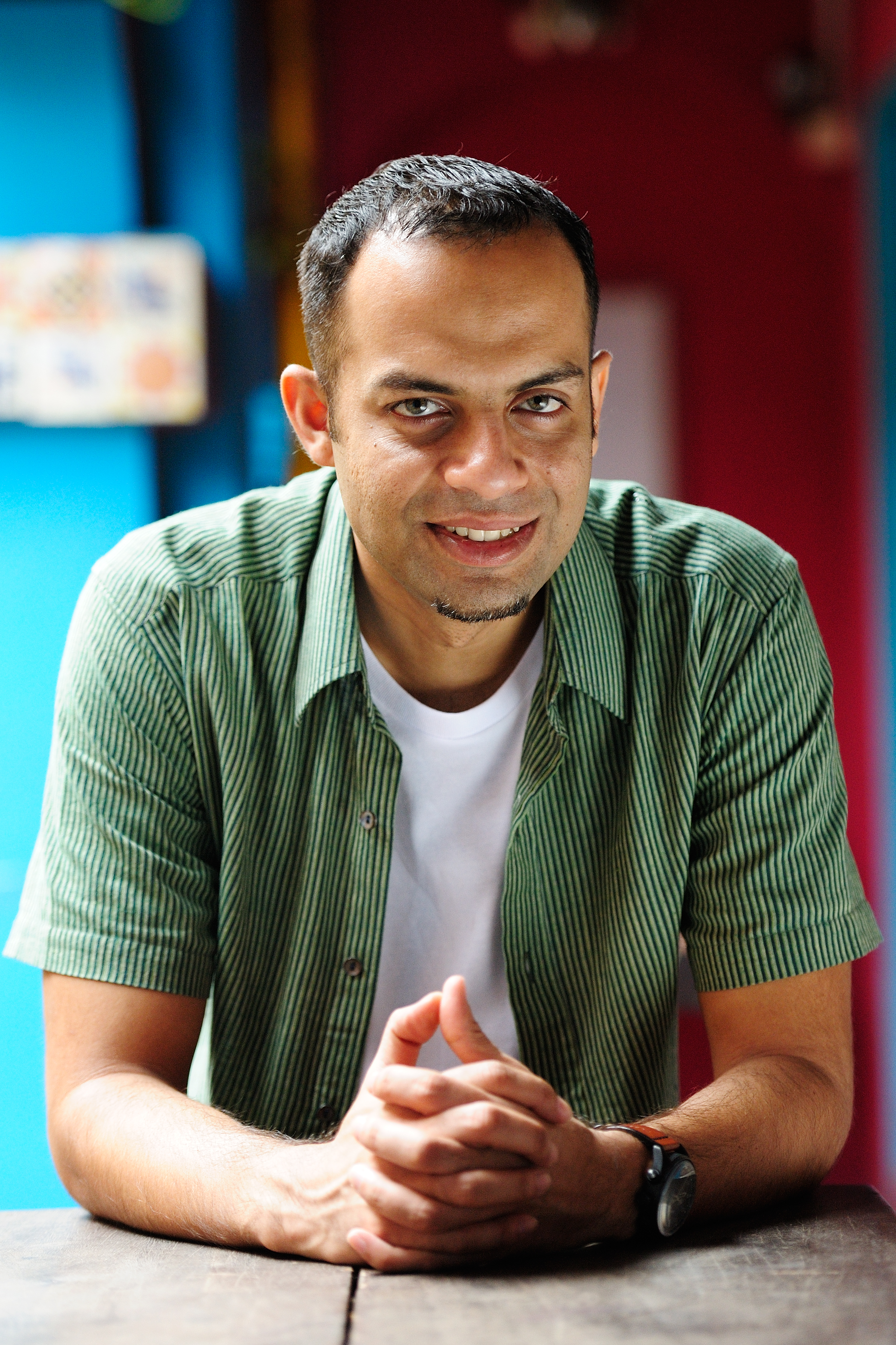 This is an image of Arun Shenoy